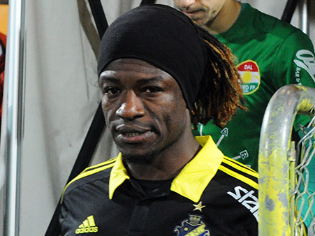 Mohamed Bangura before a training match.